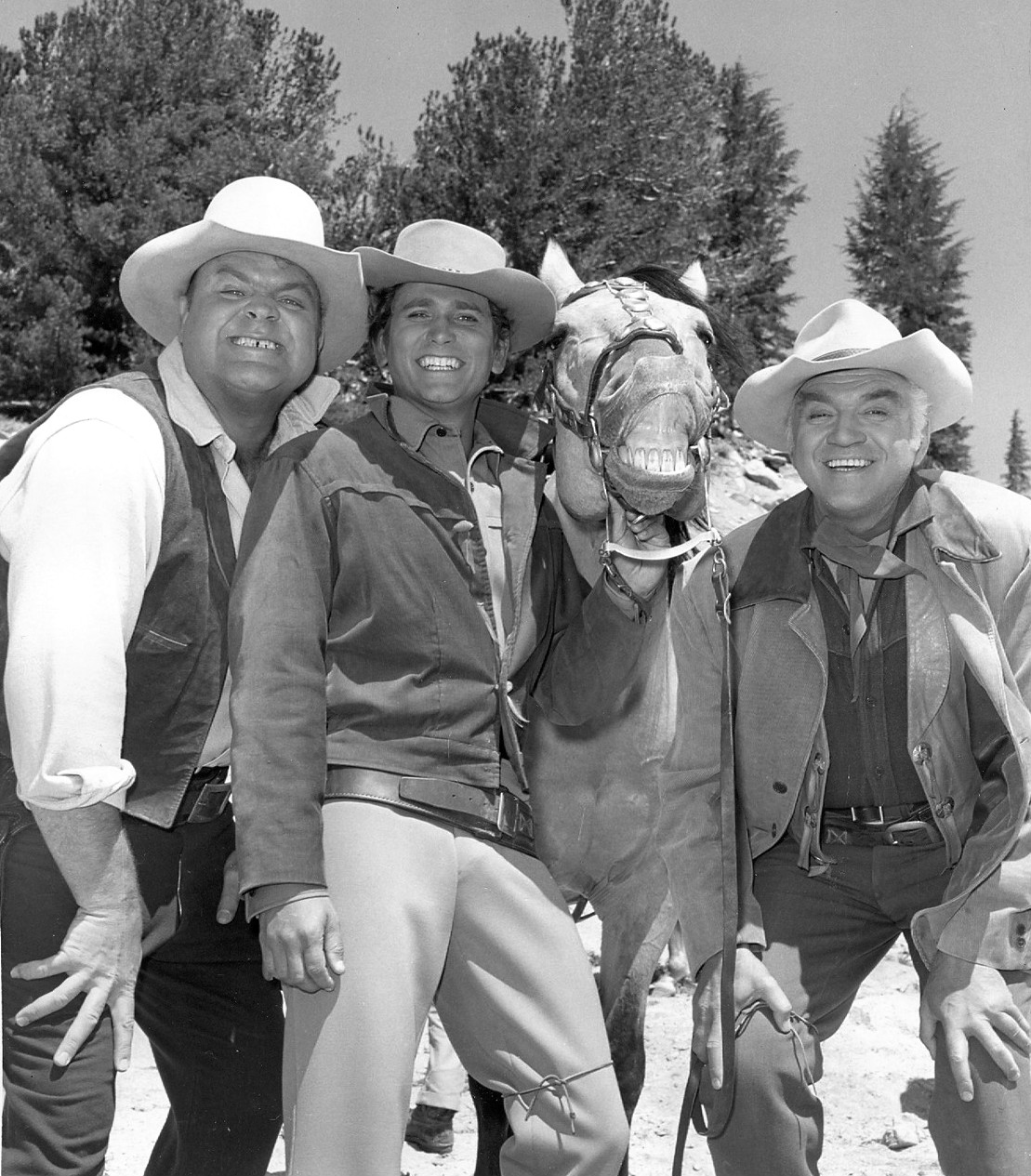 Photo of the main cast of Bonanza. From left, Dan Blocker (Hoss), Michael Landon (Little Joe), Buck (Lorne Greene's horse in series), Lorne Greene (Ben). Greene's horse decided to join the photo with a smile of his own accord.